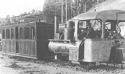 Lartigue monorail in France. The Feurs-Panissières Line. The cheap seats are on top of the carriages.